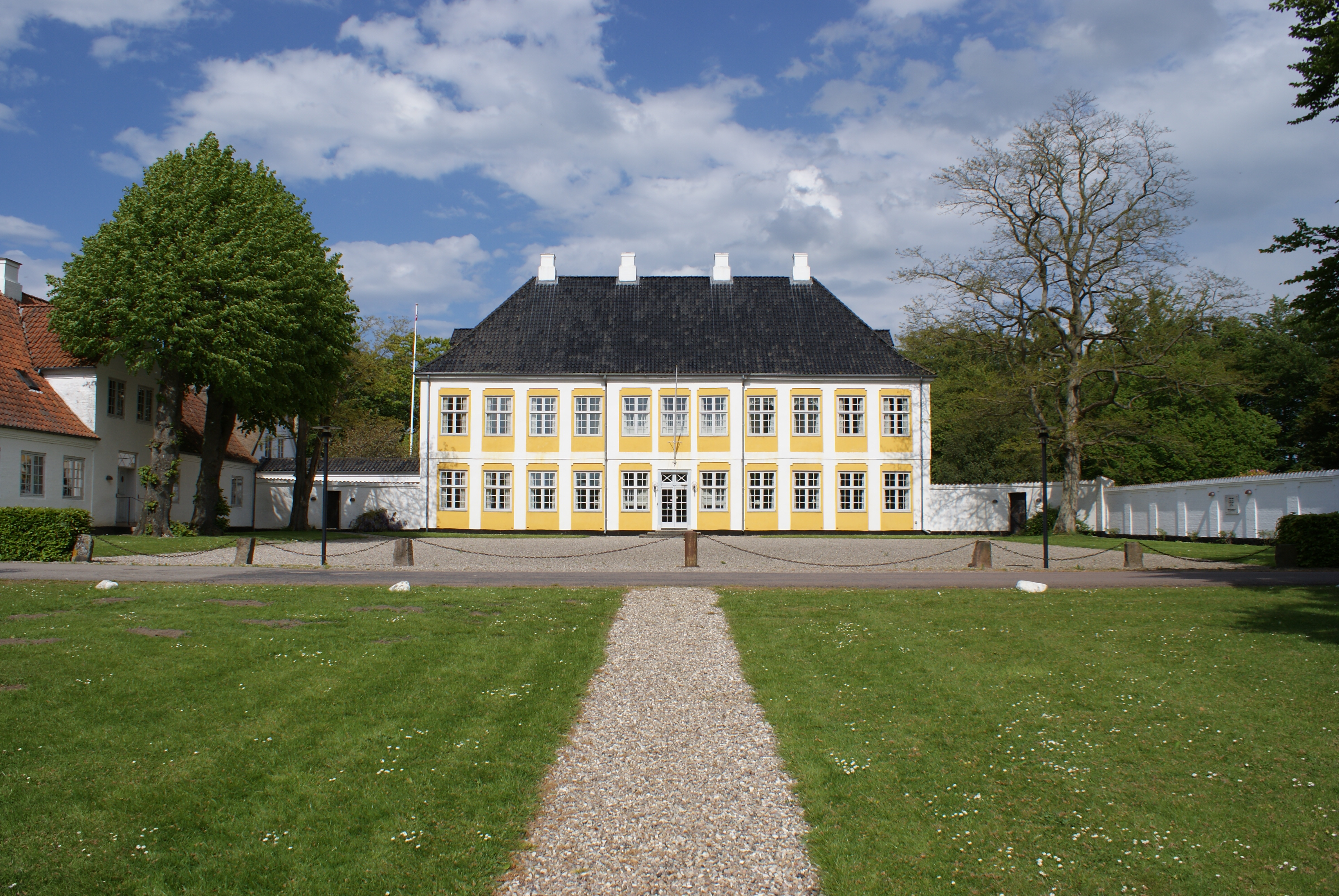 Sandbjerg Manor at the Sundewitt Peninsula